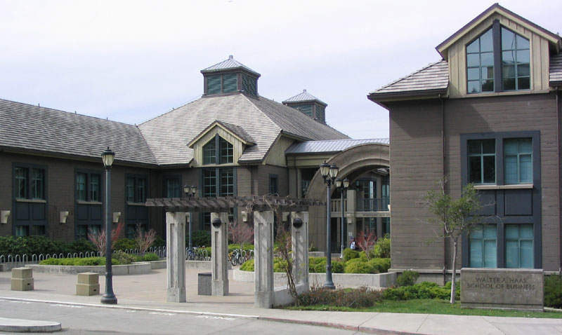 Eastern entrance, Haas School of Business, UC Berkeley. Photo taken by User:Minesweeper on March 3, 2004 and released into the public domain.